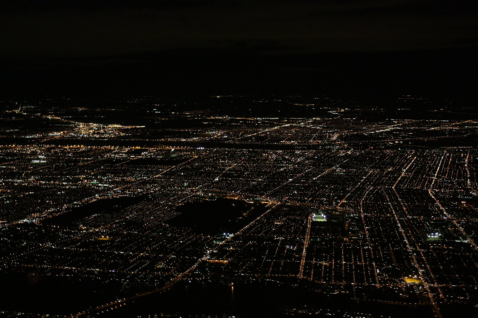 Montreal at Night